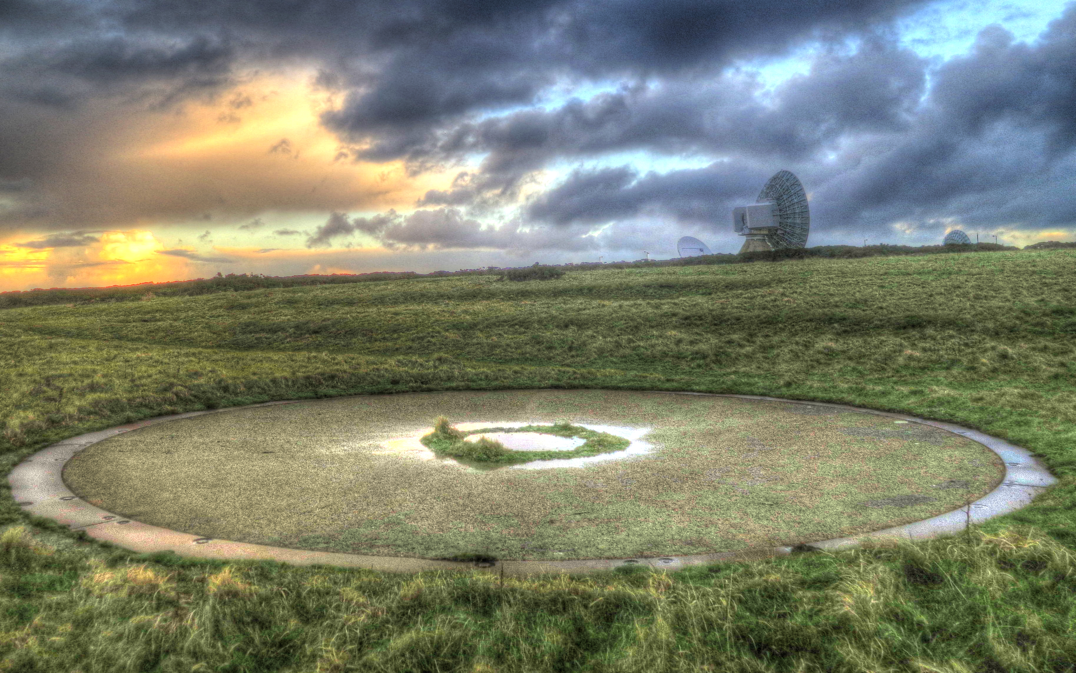 Foreground: The remains of a Second World War gun emplacement which was part of RAF Cleave, Morwenstow, Cornwall. Background: Modern satellite dishes of GCHQ Bude.